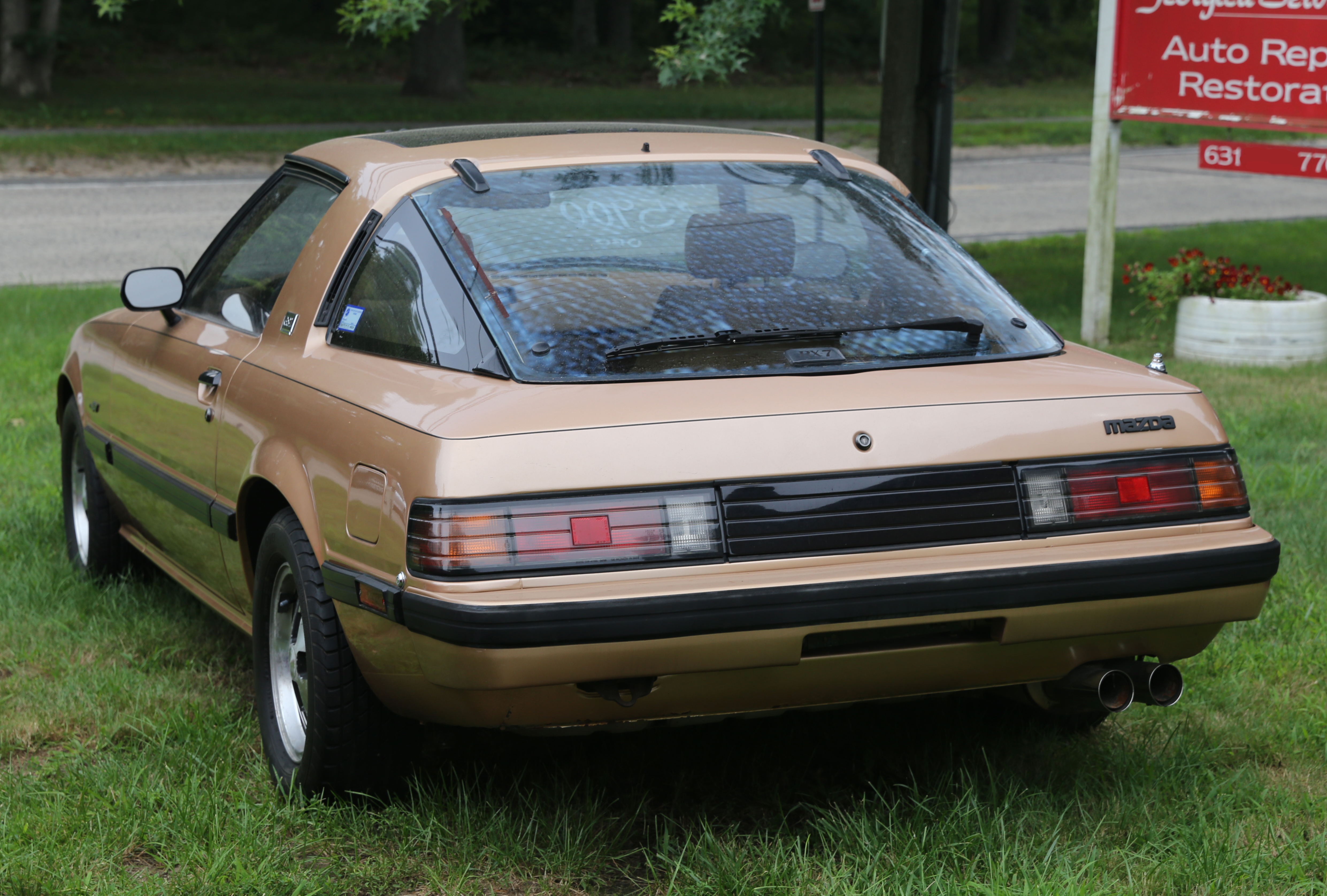 Rear of a 1983 Mazda RX-7 GSL.